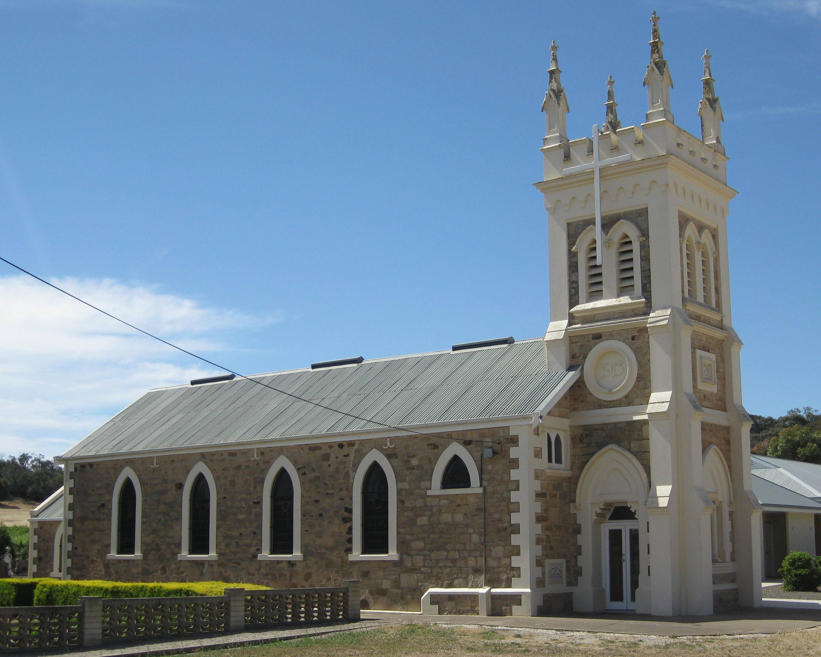 St. Michael's Gnadenfrei Lutheran Church, located in the Barossa Valley hamlet of Marananga, South Australia.